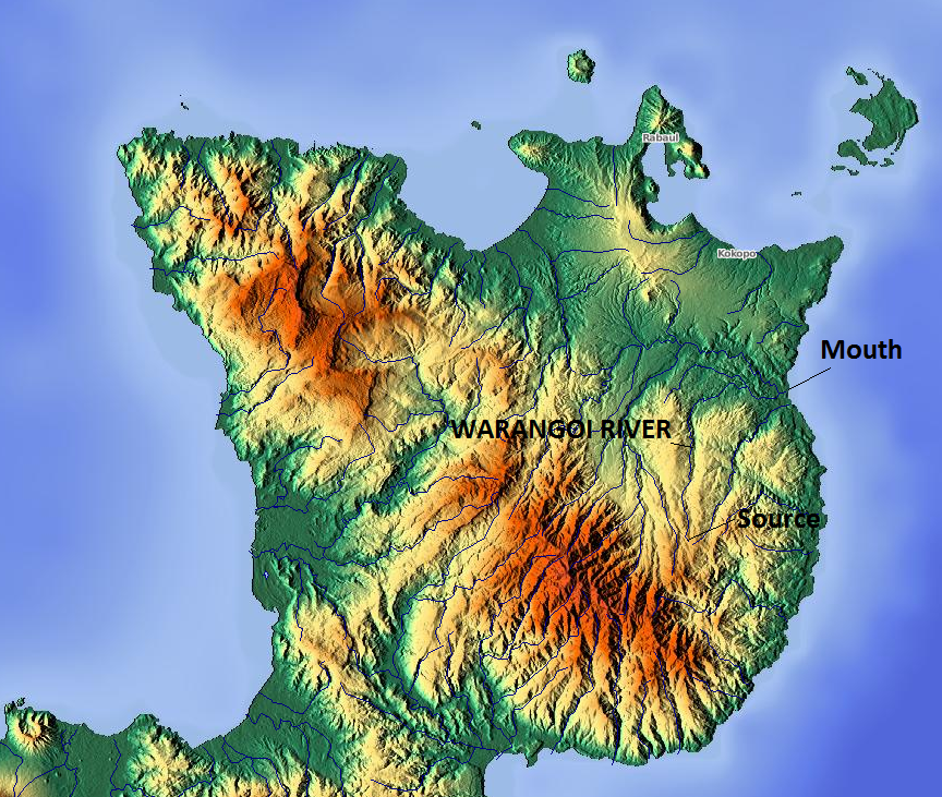 Warangoi River on the Gazelle Peninsula of New Britain, Papua New Guinea. While the Tolai people inhabit the fertile flat lands and the small islands (green area at the top right), the Baining people live in the Baining Mountains, which cut off the peninsula from the rest of New Britain.